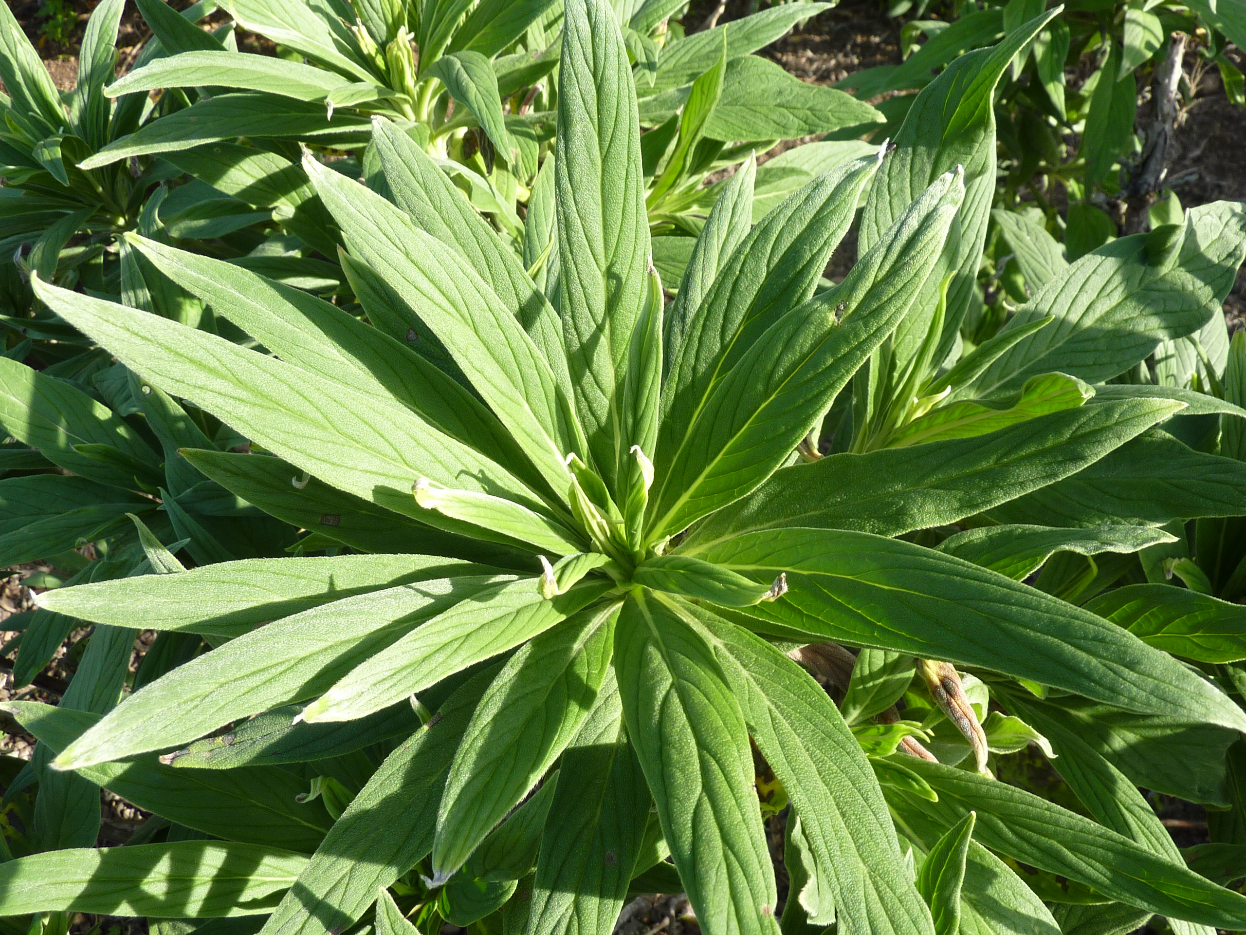 Echium callithyrsum growing in the Jardín Botánico Canario Viera y Clavijo.